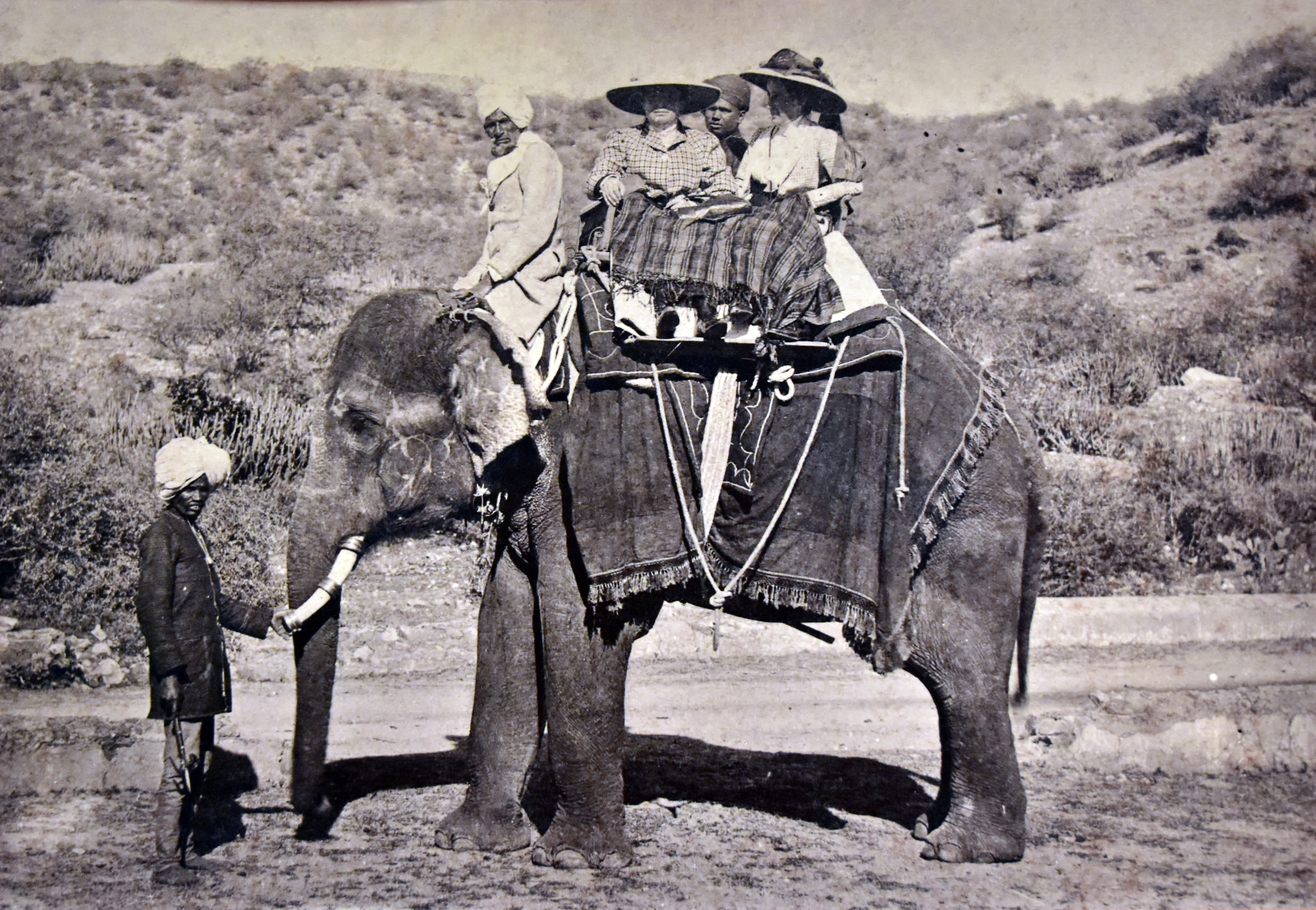 Collection of the Stadtmuseum) in Rapperswil (Switzerland): Ausstellung Der Zeit voraus. Drei Frauen auf eigenen Wegen. Marianne Ehrmann-Brentano Schriftstellerin und Journalistin (1755–1795) ++ Alwina Gossauer Fotografin und Geschäftsfrau (1841–1926) ++ Martha Burkhard Globetrotterin und Malerin (1874–1956) : Martha_Burkhardt_(rechts) und ihre Freundin Meta Kirchner auf einem Elefanten, Reise durch Indien, 1911.